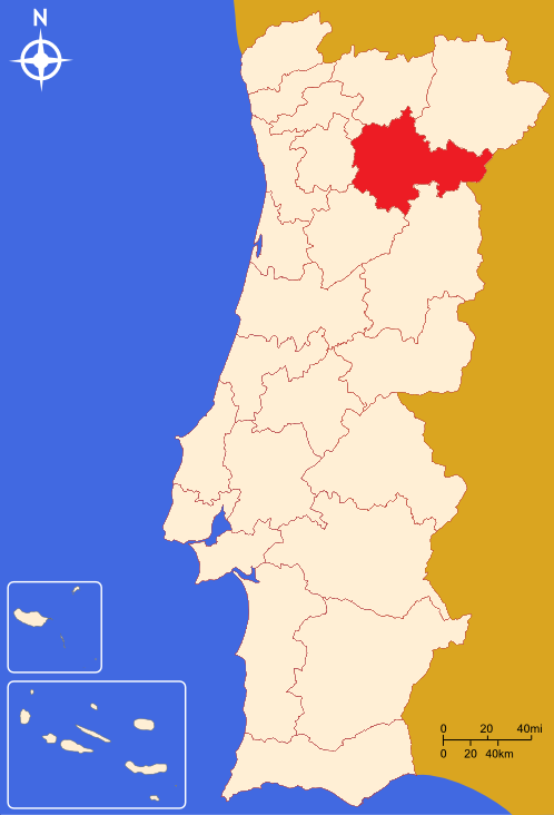 Comunidade Intermunicipal do Douro